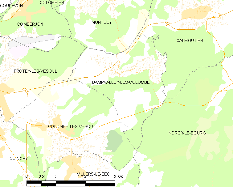 Map of French municipality